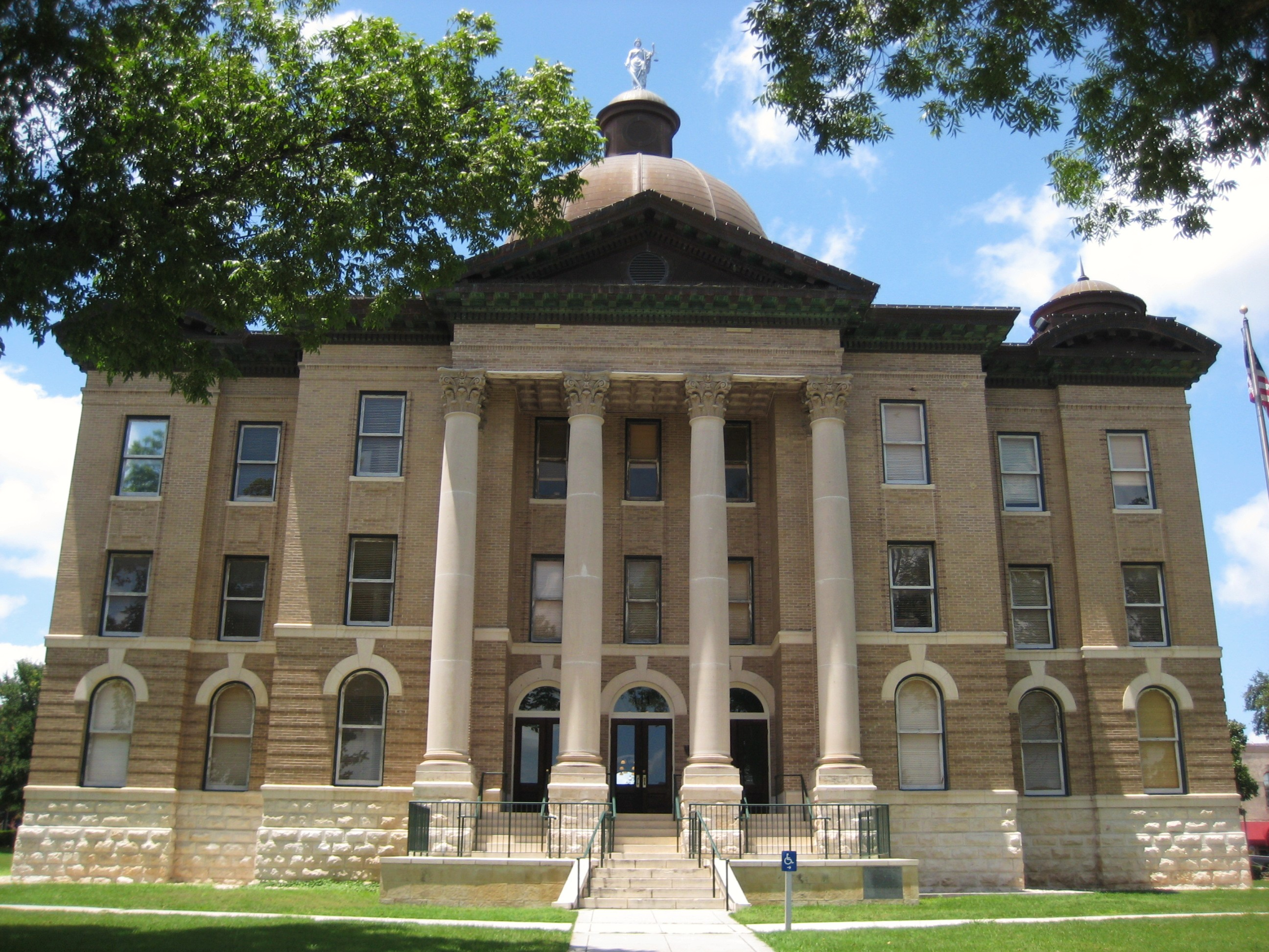 Hays County Courthouse at San Marcos, Texas